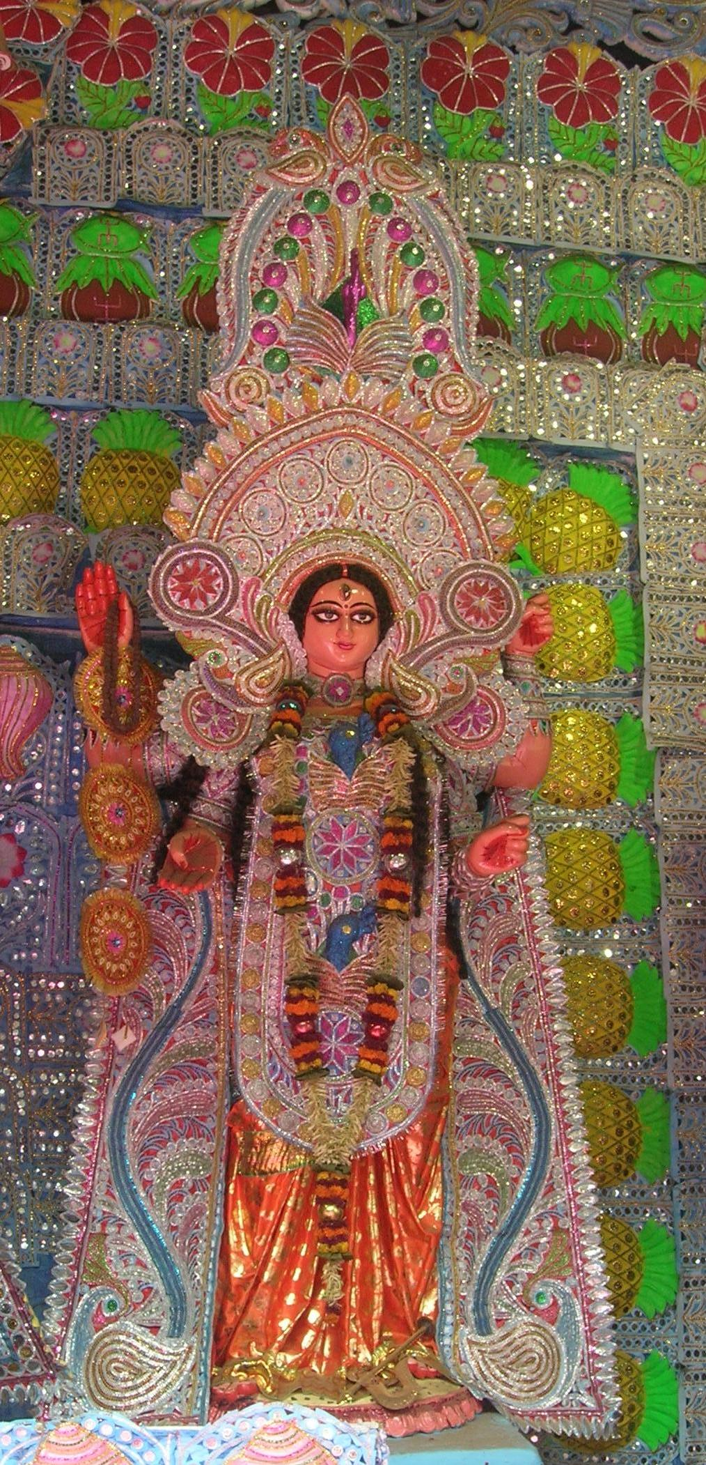 Bhairabi at Janbajar Sammilito Kali Puja Samiti pandal, Kolkata.